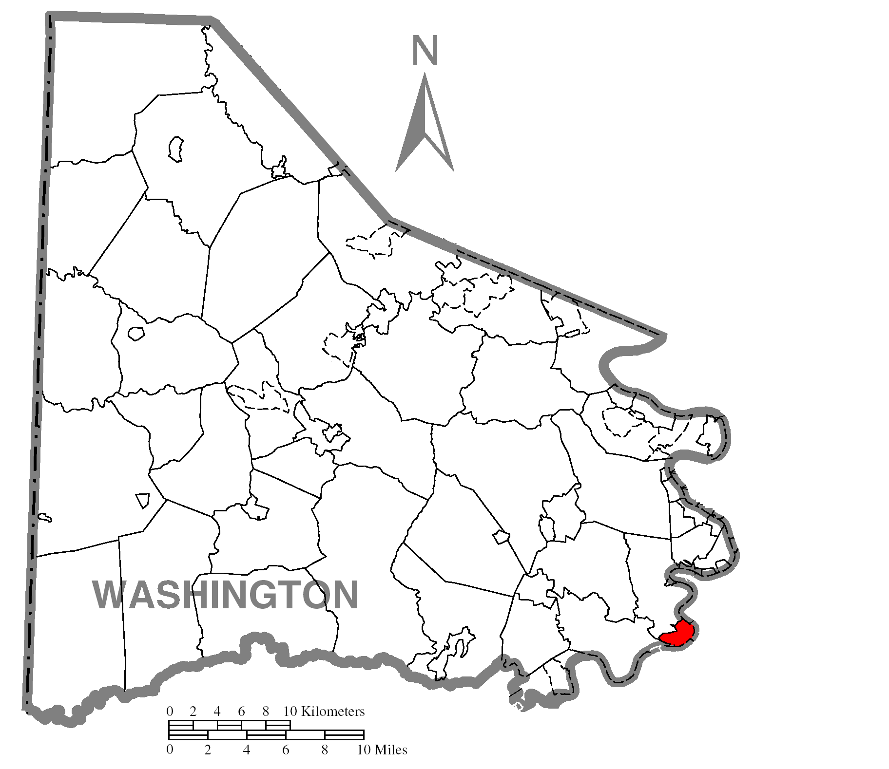 Map of Washington County higlighting West Brownsville.